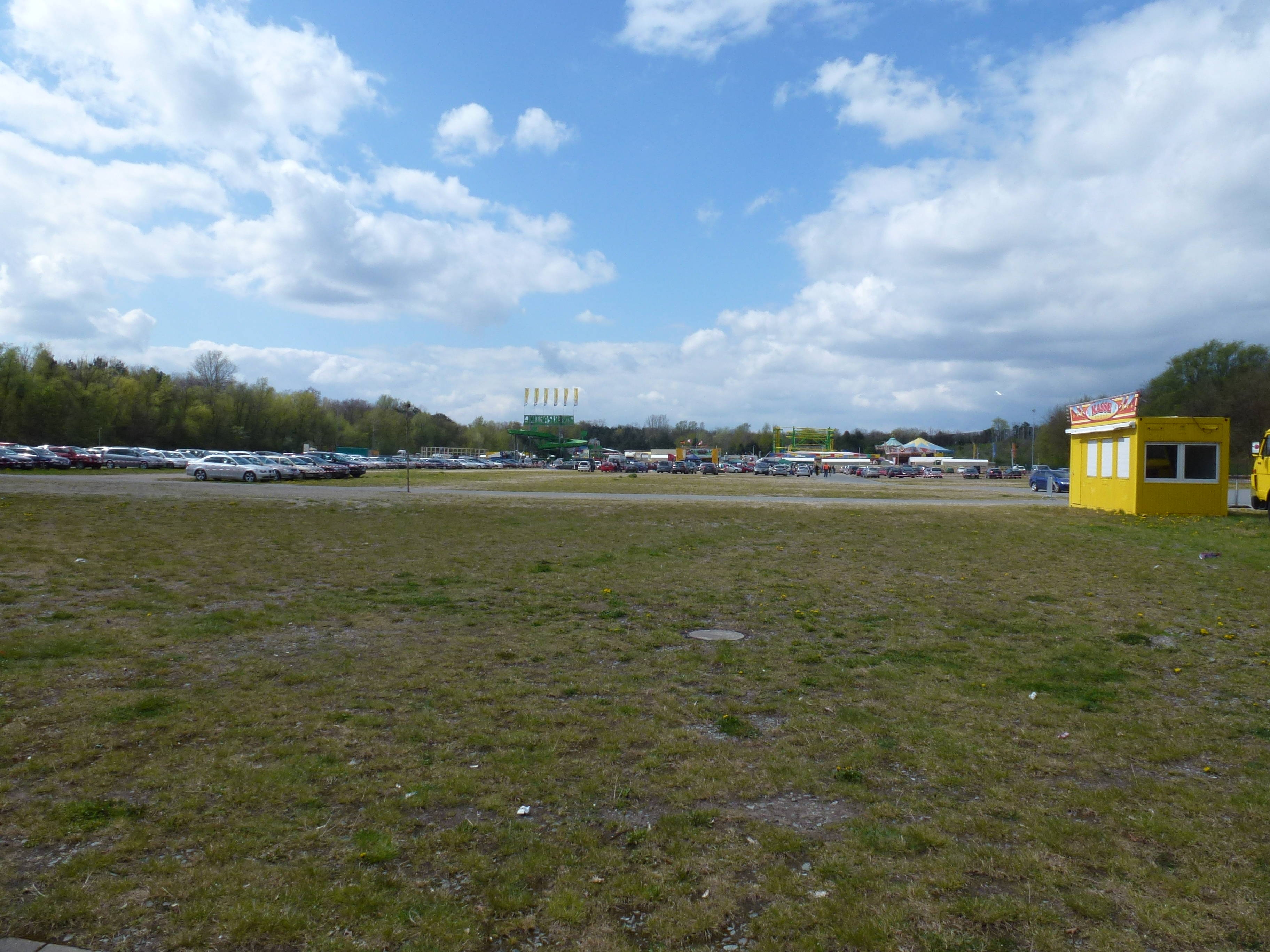 Berlin-Wedding Zentraler Festplatz